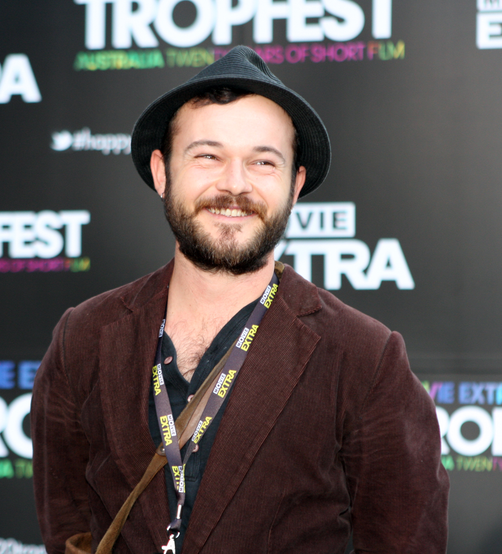 Tropfest Opens In Sydney, Australia - a celebration of 20 years of the iconic short film festival. It's estimated that about 150,000 people saw the event live, with the Sydney leg taking place at The Domain, and the forecast of rain (which got heavier as the night went on) didn't appear to dip the crowd. Recognized as the largest short film festival in the world, Tropfest is also praised for "its enormous contribution to the development of the Australian film industry by providing unique platforms for emerging filmmakers through its events and initiatives, and new and expanded audiences for their work." Finalists... KITCHEN SINK DRAMA, THE UNUSUAL SUSPECTS, THE MISTAKE, RGB, PHOTO BOOTH, ONE THING, MY CONSTELLATION, MIN MIN, MATCHBOX BROTHERS, LEMONADE STAND, JACK & LILY, “I’M FREE TO BE ME”, HOW MANY MORE DOCTORS DOES IT TAKE TO CHANGE A LIGHTBULB?, BOO!, ALICE’S BABY Tropfest (Australia) Tropfest Eva Rinaldi Photography Flickr Eva Rinaldi Photography Music News Australia